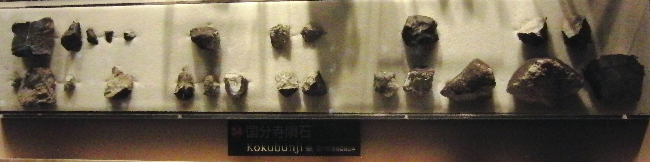 Kokubunji meteorite, L6. Exhibit in the National Museum of Nature and Science, Tokyo, Japan.